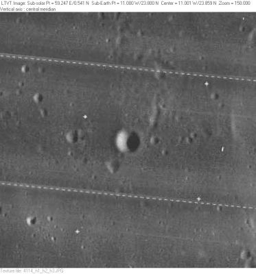 Pupin lunar crater - image LO-IV-114H LTVT